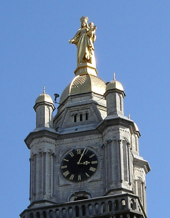 own work